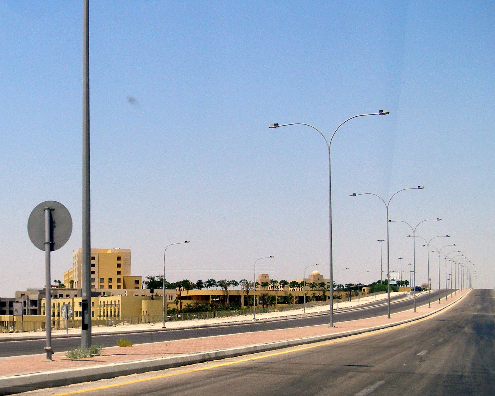 Ishtar Kempinsky Hotel at The Dead Sea - Jordan